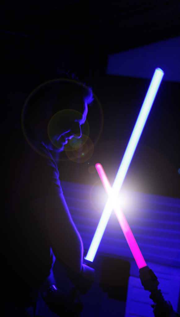 Star wars me